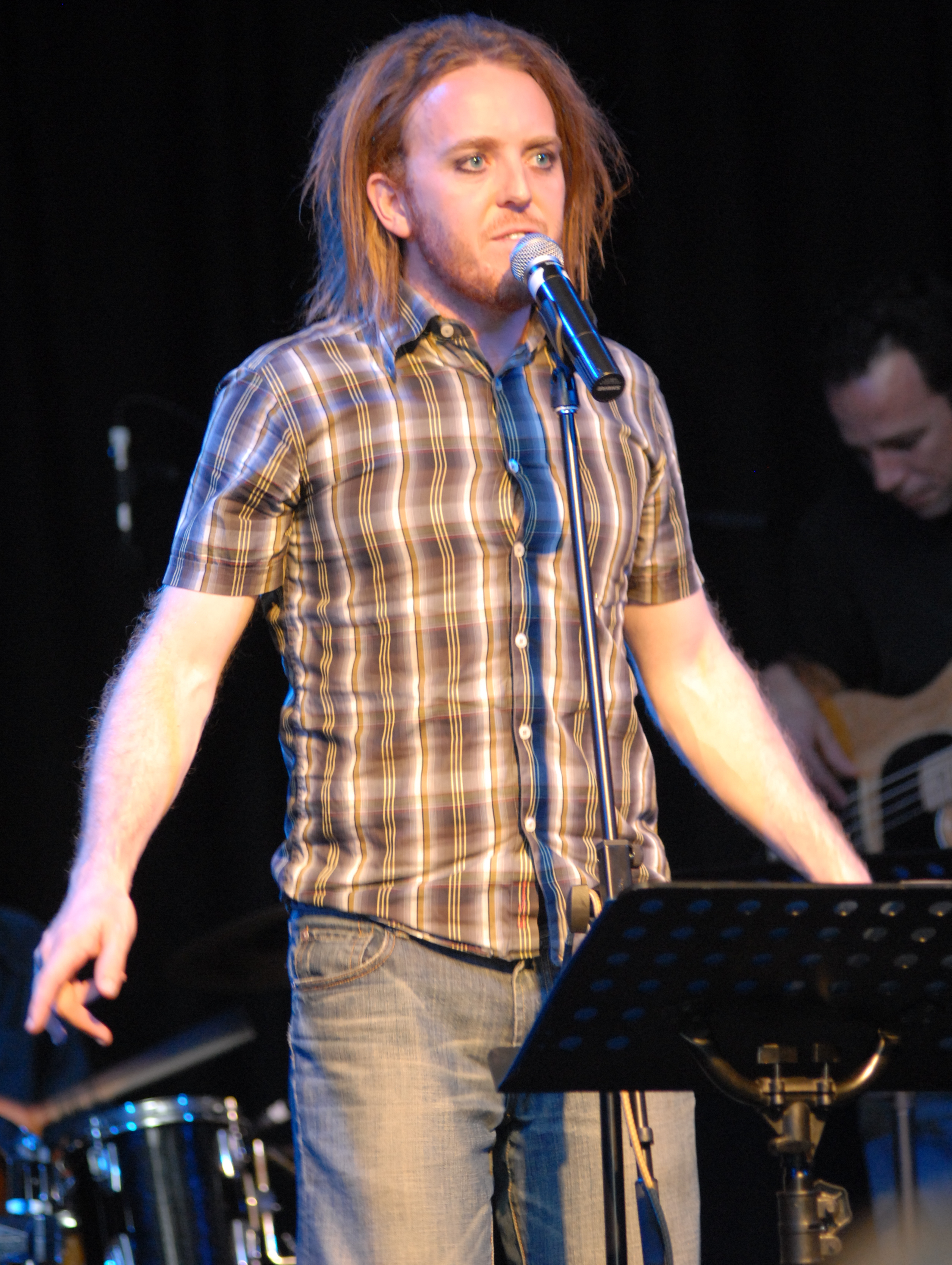 Tim Minchin